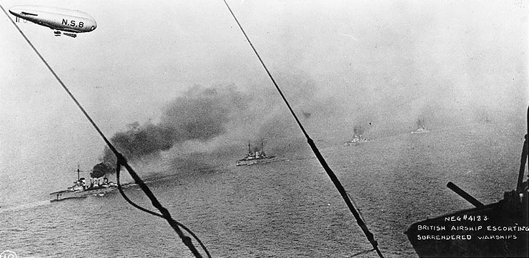 Removed caption read: Photo # NH 59665 British blimp N.S.8 escorts German fleet to Scapa Flow, 21 November 1918